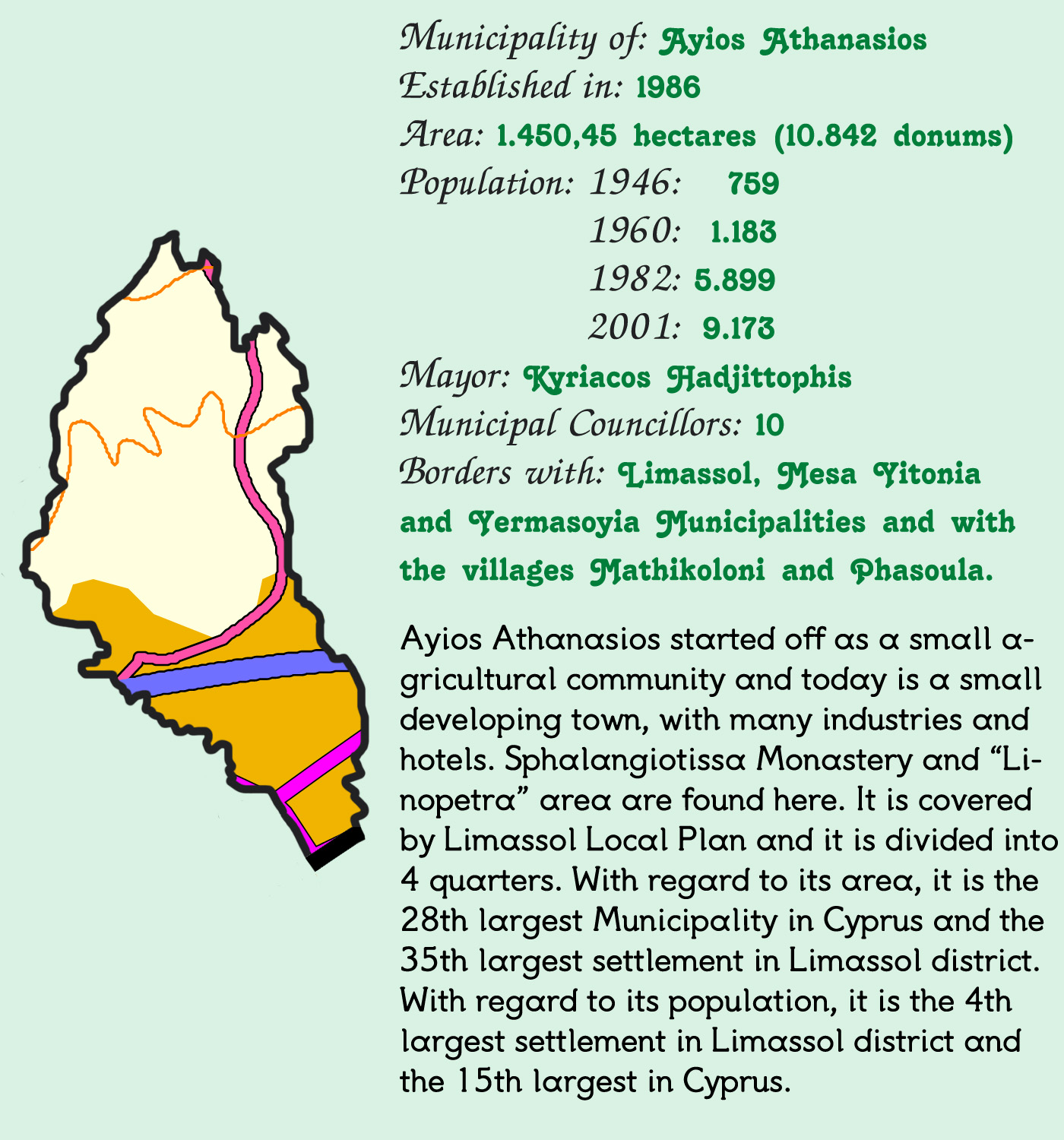 Concise presentation of Ayios Athanasios